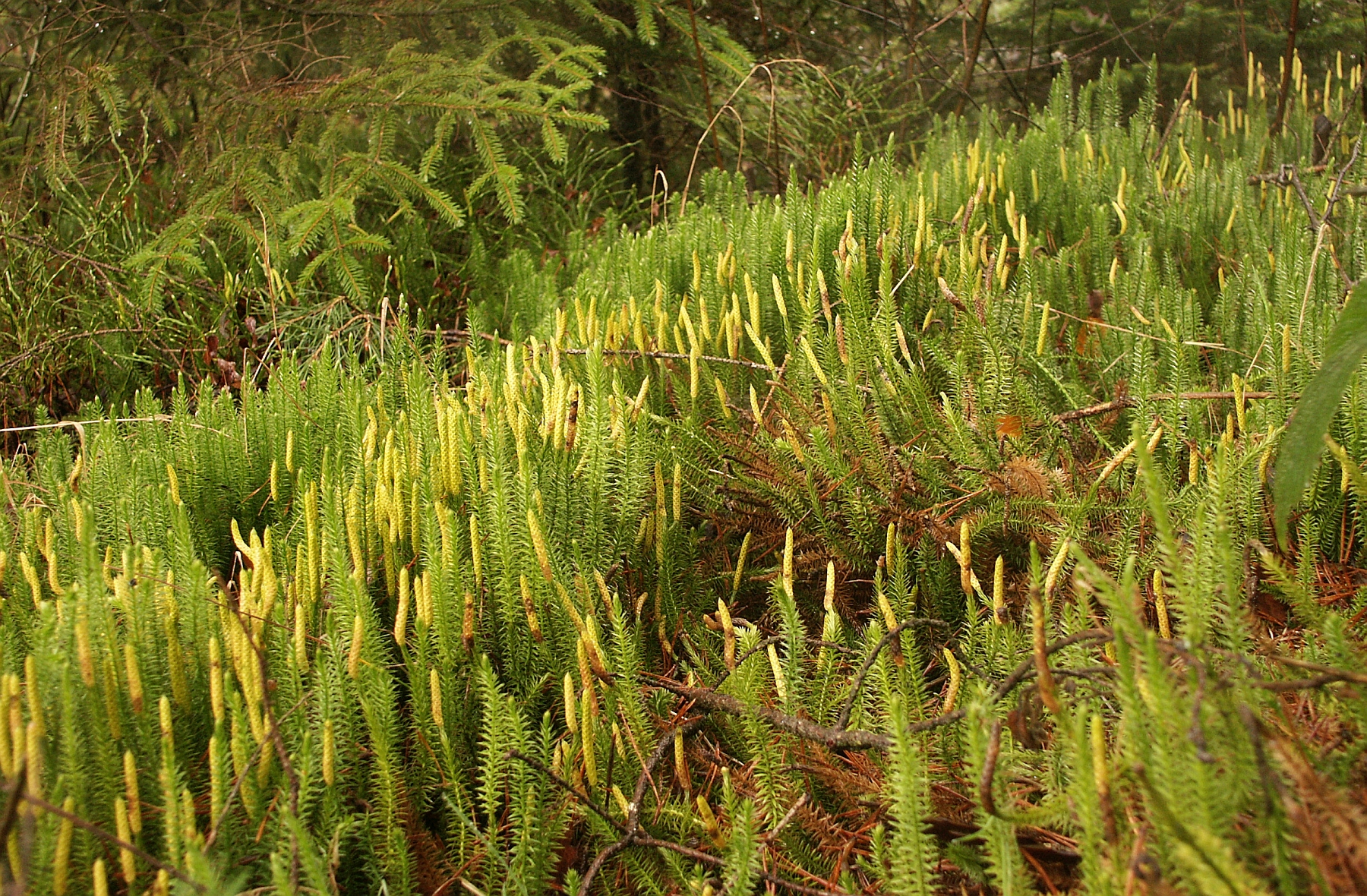 Lycopodium annotinum, Virngrund, Germany